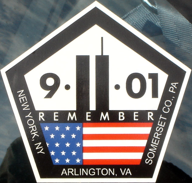 Photographer: Ken Adams (User:BlaculaDave) Source: Photograph, Police/Fire Parade 2004